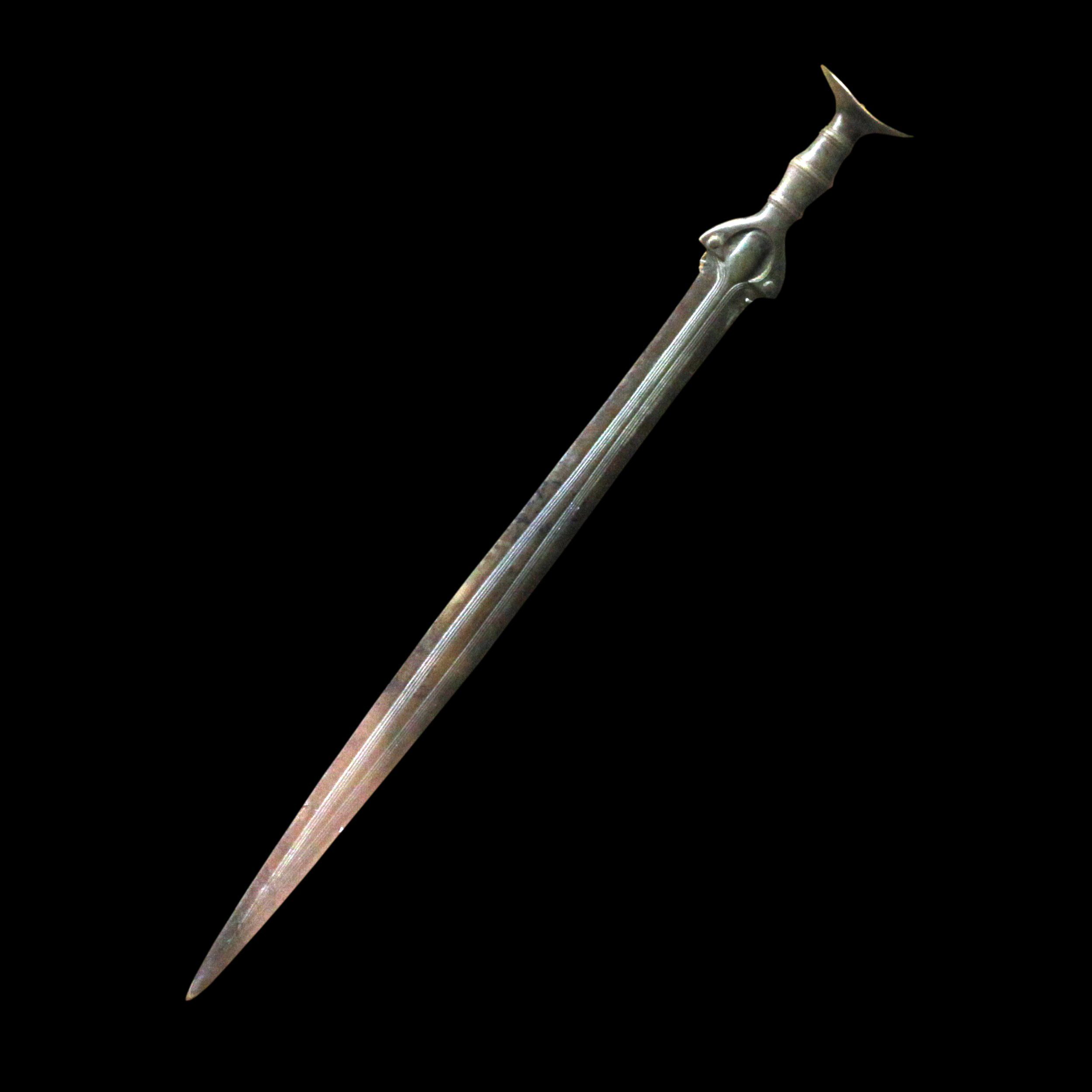 Bronze sword from the Gallo-Roman Museum of Lyon